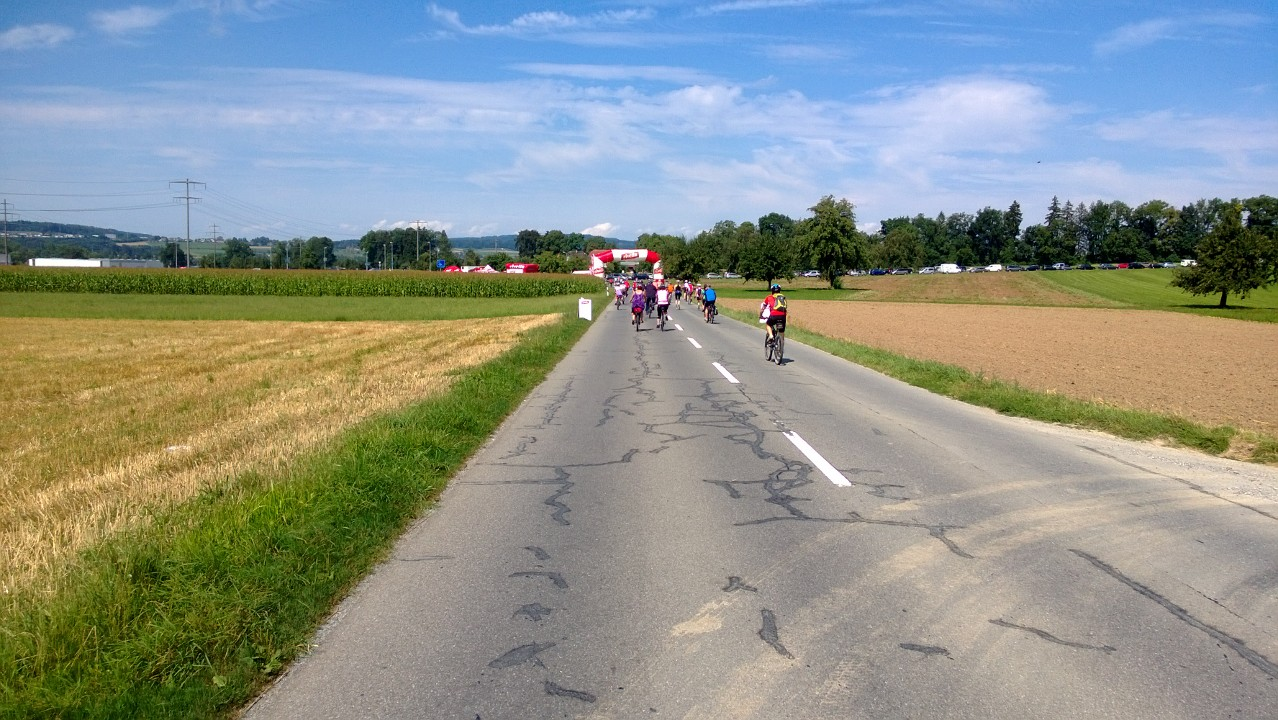 Slowup Sempachersee 2013. Photo taken at Geuensee. In the back "Rivellea" Sponsoring Place